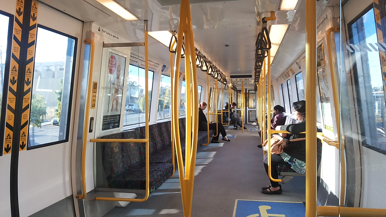 The interior of Transperth's Walkers A-Series train numbered 33 (AEA233/AEB333); featuring a special type of stanchions in between doors on this unit only.